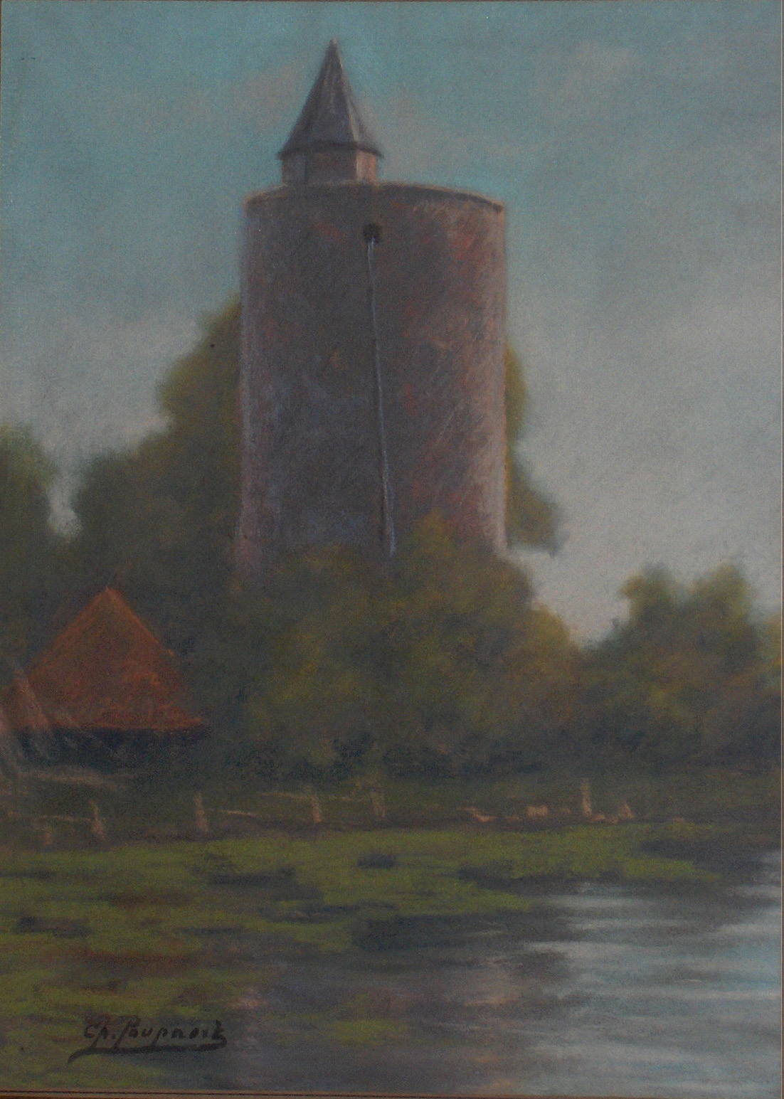 "Oude toren", pastel door Charles Poupaert (1874-1935); academie van Brugge; privé bezit